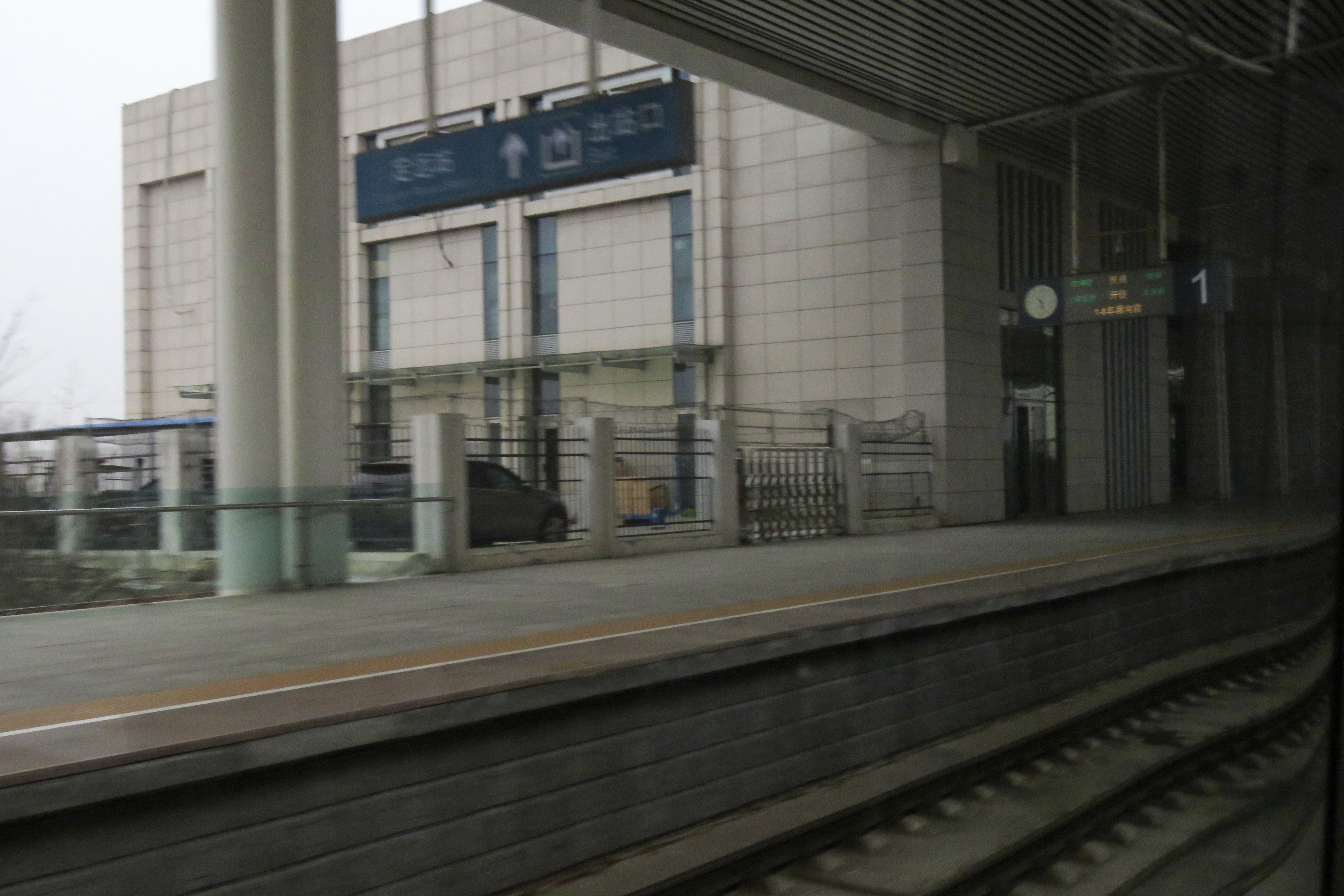 A rarely-noticed station. The Rejuvenation rushes so fast...